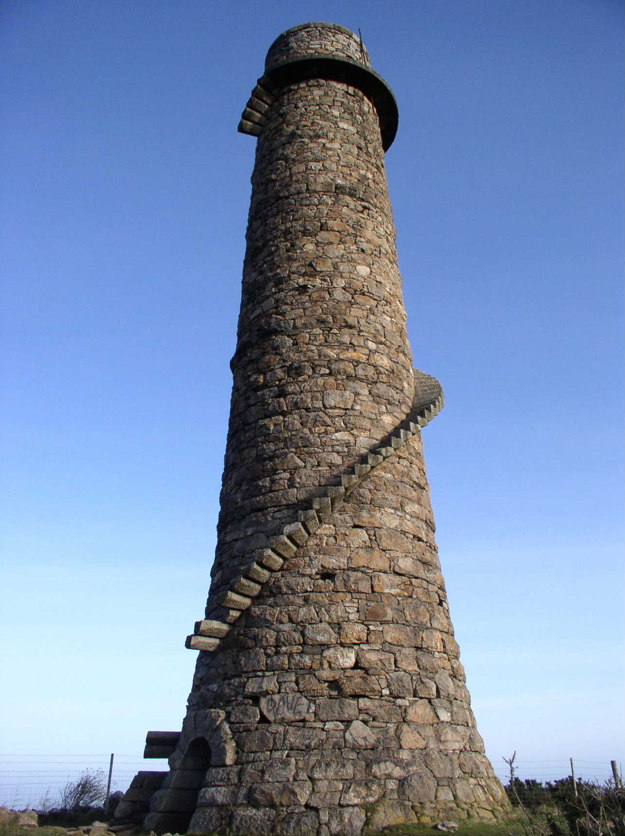 Lead Mines Chimney near Kiltiernan. Chimney at disused lead mines near Kiltiernan, South Co. Dublin. A well-known local land mark.